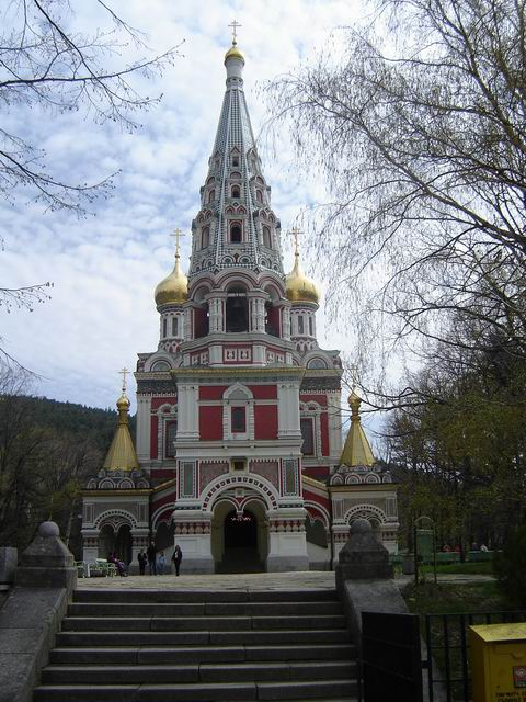 The church "Rozhdestvo Hristovo" with gold-plated domes in Shipka, Bulgaria.